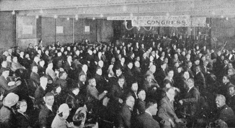 News photograph of American Negro Labor Congress meeting from Vanguard Press. More information at the source URL